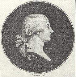 Portrait of William Thomas Beckford (1760-1844), British writer, head, in profile to right; within a roundel; illustration to "European Magazine".